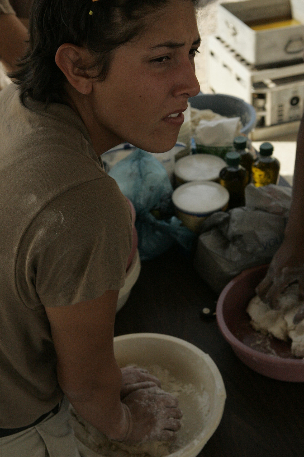 Spc. Stacy R. Mull, a 20-year-old Okemah, Okla., native, and Creek Indian, kneads ingredients to make a Native American-style fried bread during a pow wow at Camp Taqaddum, Iraq, Sept. 18, 2004. The U.S. Army's 120th Engineer Combat Battalion, a Okmulgee, Okla.,-based reserve unit currently deployed in support of Operation Iraqi Freedom, held the event to promote cultural understanding of Native American heritage with other servicemembers here, and to bring a piece of home to many of the Native Americans serving in Iraq. Nearly 20 percent of the 120th's soldiers are of Native American descent. Highlights of the festivities included storytelling, dancing, music, a class on pow wow etiquette, and the chance to sample traditional food. Historically, a pow wow was a ceremony performed before hunts and battles. Today, pow wows are held to celebrate special occasions, such as the birth of a child, and to share songs and customs.